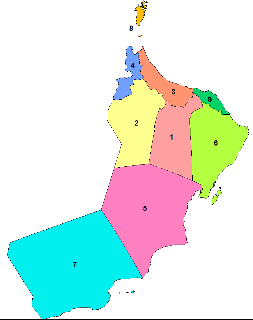 Map of the 1st level administrative divisions (governorates and regions) of Oman. Includes the newest governorate of Al Buraimi. Created by Rarelibra 14:03, 25 February 2008 (UTC) for public domain use.